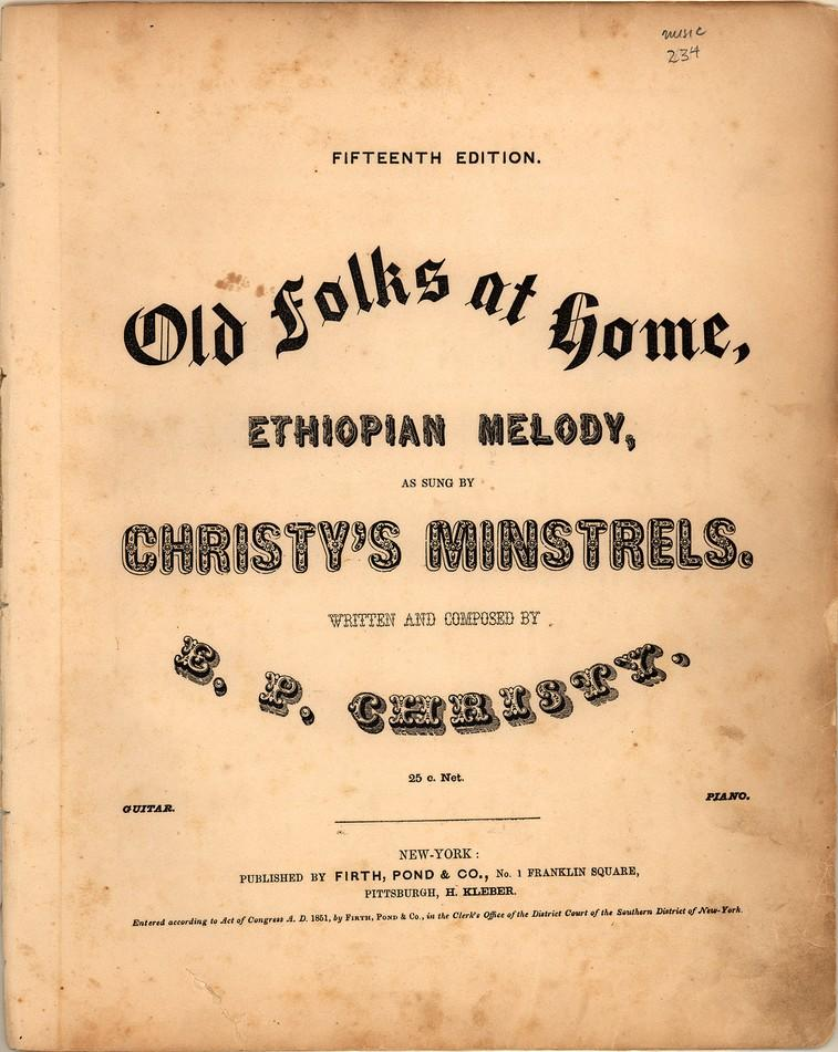 A copy of Old Folks at Home, as performed in 1851 by Christy's Minstrels.